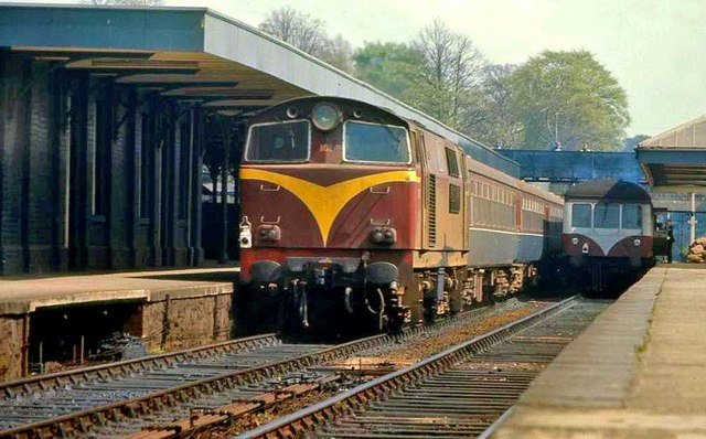 Bygone days at Lisburn station (2)